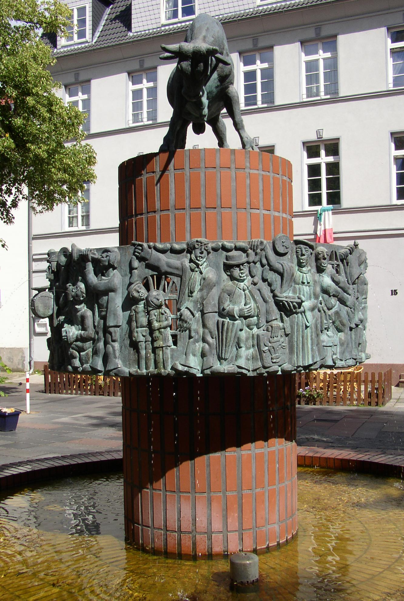 Fountain by Stephan Horota in Schwerin in Mecklenburg-Western Pomerania, Germany